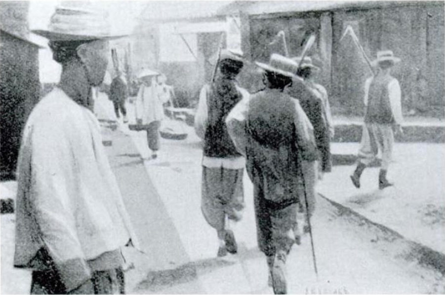 Chinese soldiers in 1900 during the Boxer Rebellion. Photo taken by Arnold Savage-Landor. Arnold died over 70 years ago in 1924 so the photo is public domain.